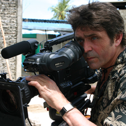 photo directeur